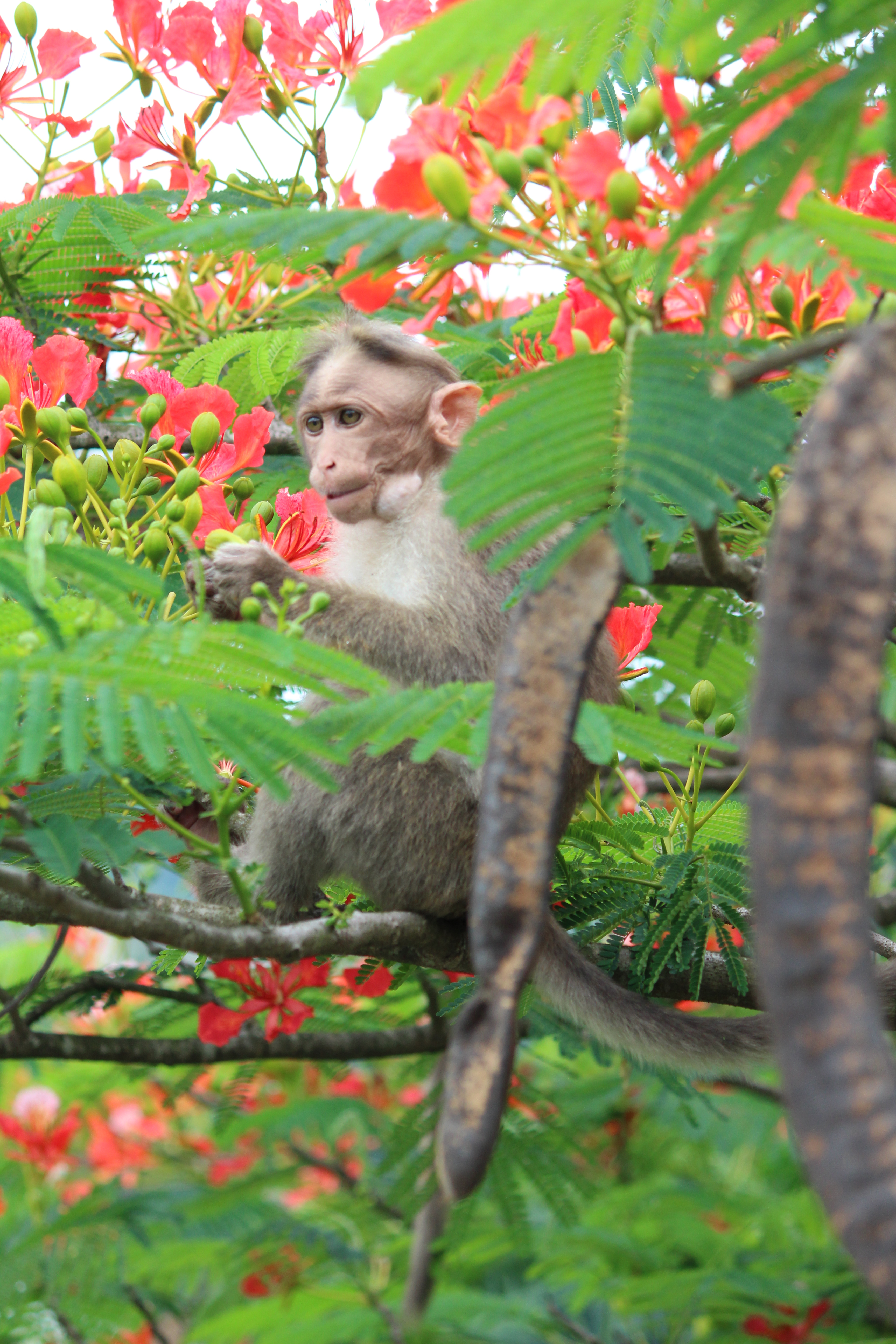 Bonnet macaques eating Delonix regia flowers.